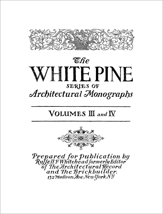 Frontispiece for Vols. III & IV of the White Pine Series of Architectural Monographs